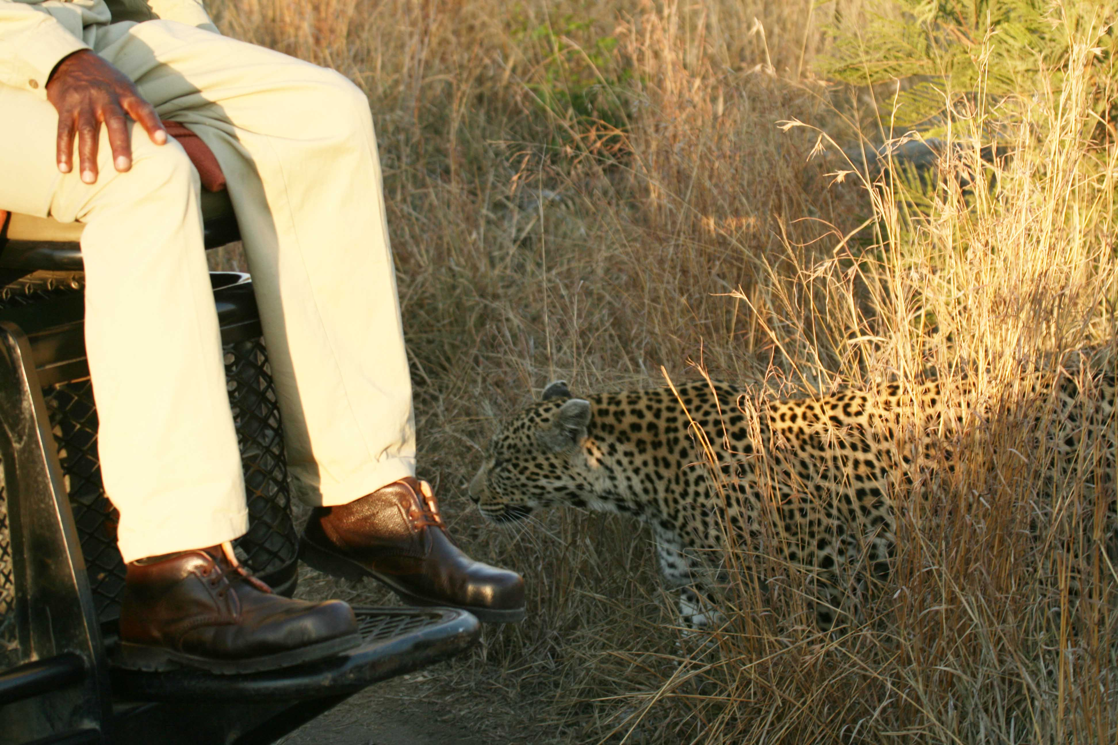 Leopard (Panthera pardus) walking next to game vehicle. Sabi Sands, South Africa. Photo by Lee R. Berger